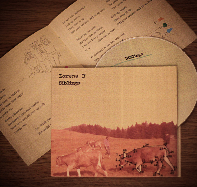 Lorena B - "Siblings" Album Cover